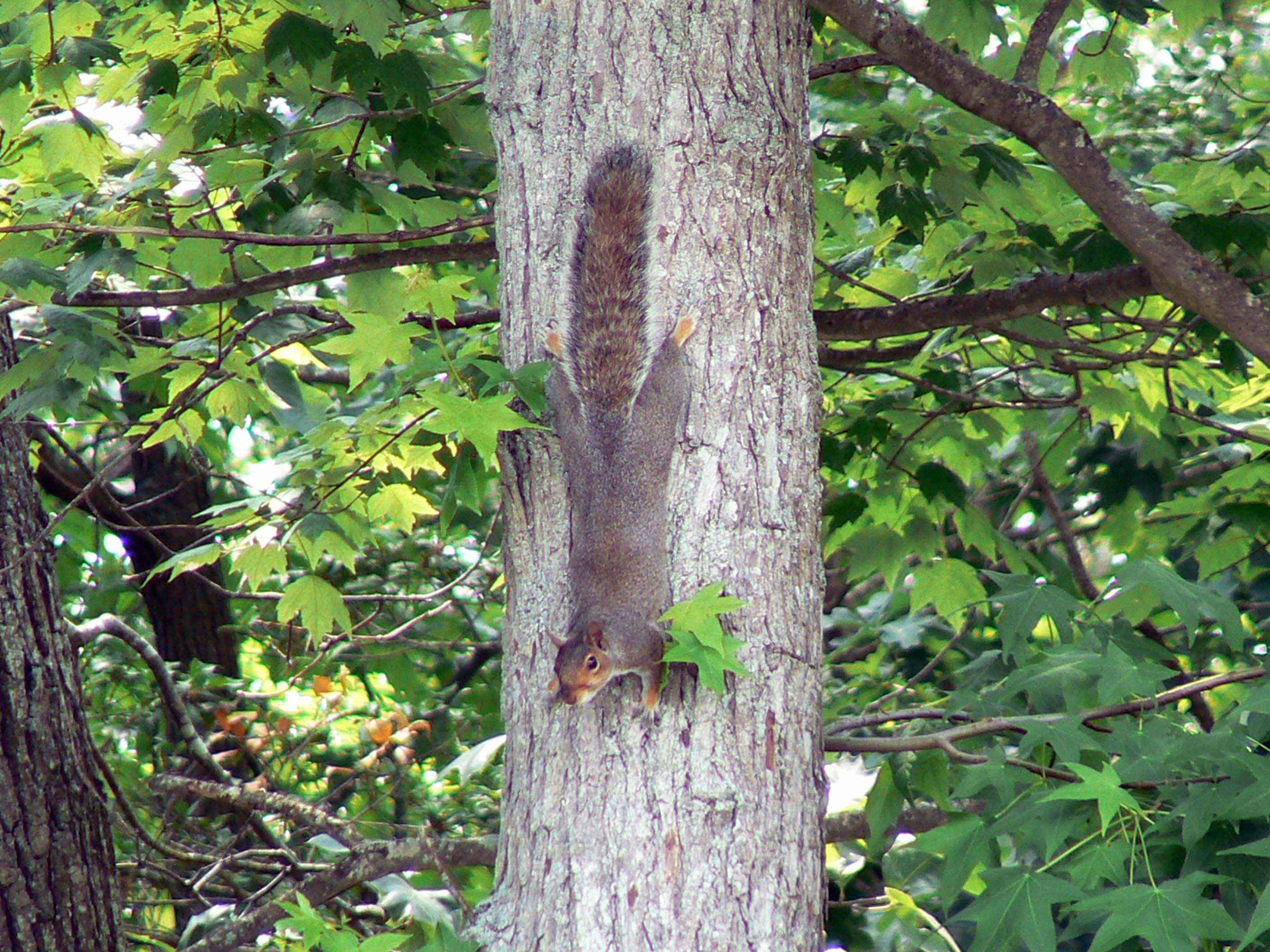 Image title: Eastern gray squirrel on tree sciurus carolinensis Image from Public domain images website